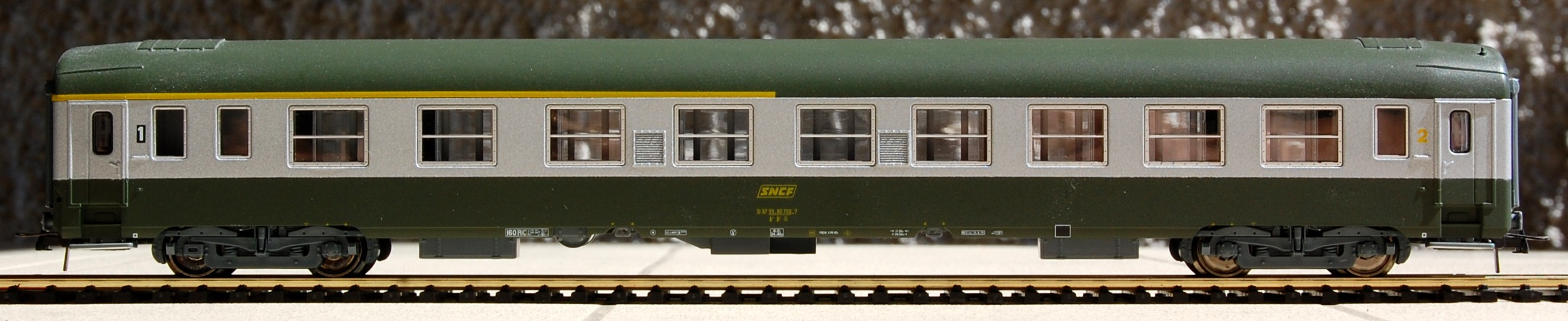 UIC A4B5 C160. Scale model by Roco.